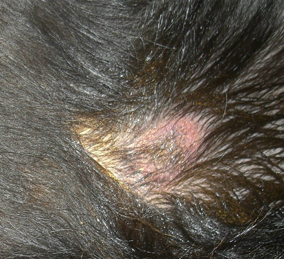 Canine leishmaniosis in a dog.